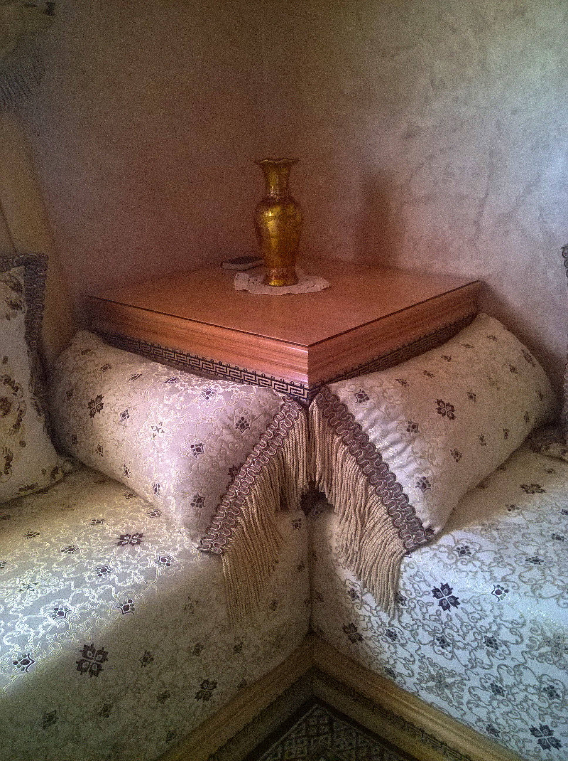 moroccan decoration